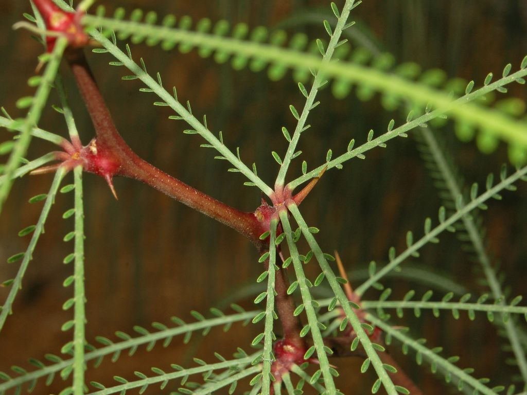 Parkinsonia aculeata - Athens, Greece